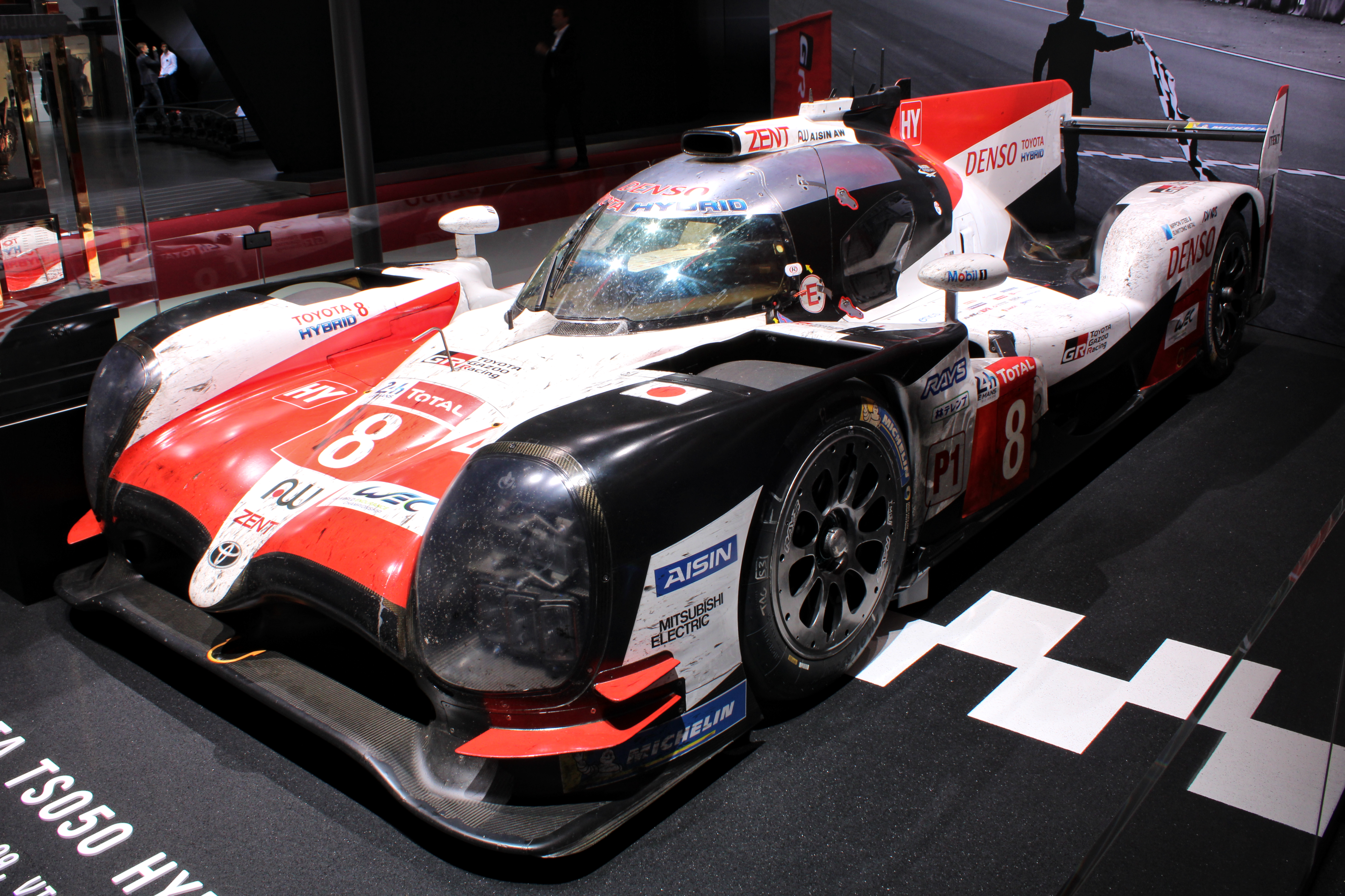 Toyota TS050 Hybrid at Paris Motor Show 2018